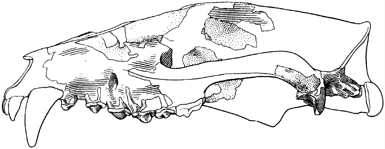 Dissopsalis carnifex skull restoration, specimen AM19401